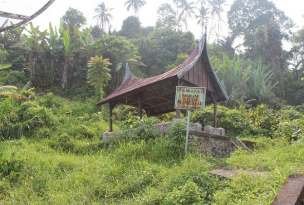 Sheikh Muhammad Amrullah's tomb in Sungai Batang, Tanjung Raya, Agam Regency, West Sumatra, Indonesia